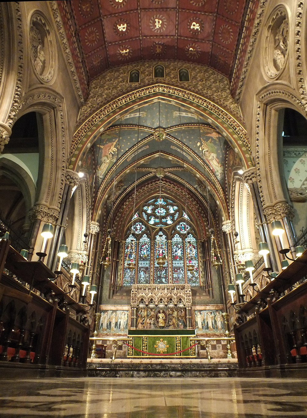 The chancel of St. Peter's church, Bournemouth